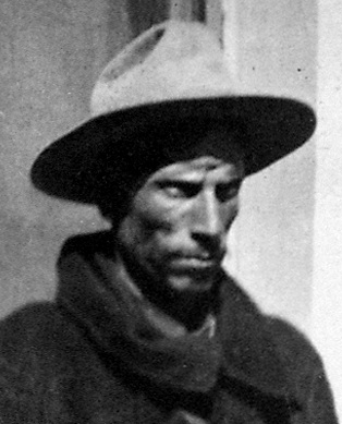 The last four men on the righthand side are, from left to right: Mexican revolutionaries General Rodolfo Fierro, Pancho Villa, General Toribio Ortega and Colonel Juan Medina.